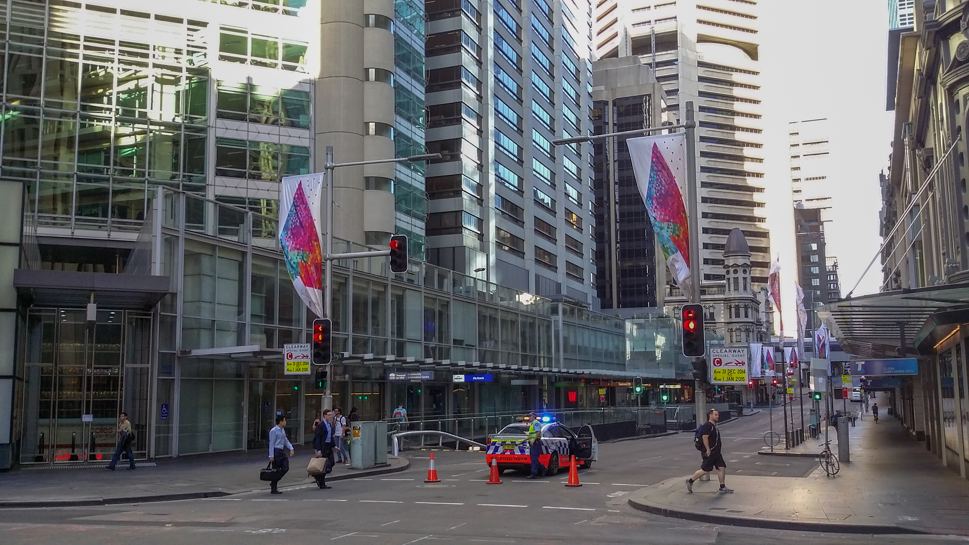 Road closures in Sydney CBD, due to Sydney hostage crisis